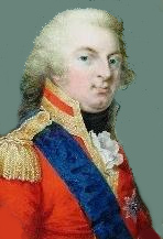 Portrait of Prince Frederick, Duke of York and Albany (1763-1827)